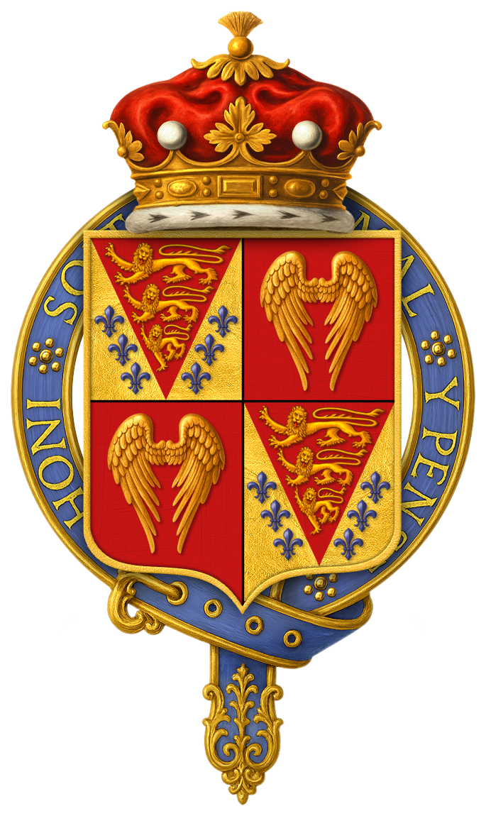 Coat of arms of William Seymour, 1st Marquess of Hertford, KG